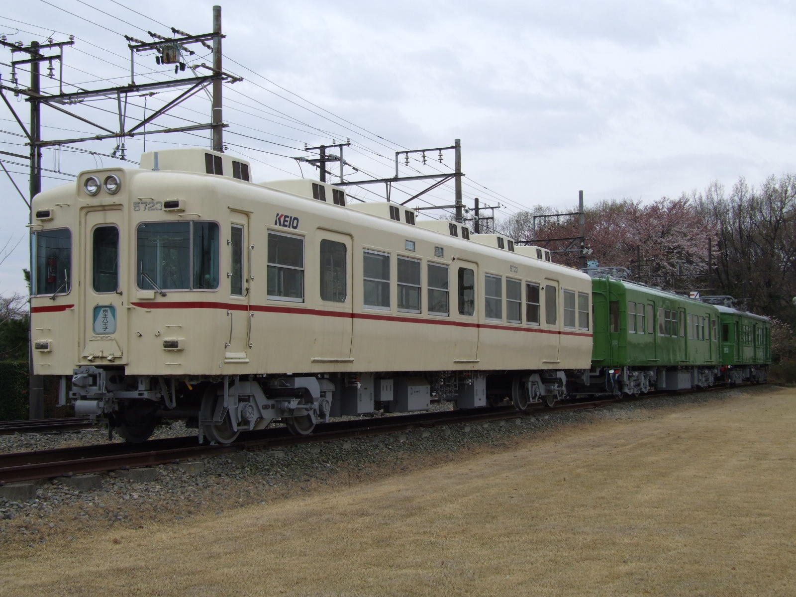 Preserved Keio EMU cars (5000, 2000, and 2400 series) at Keio's Hirayama Training Center